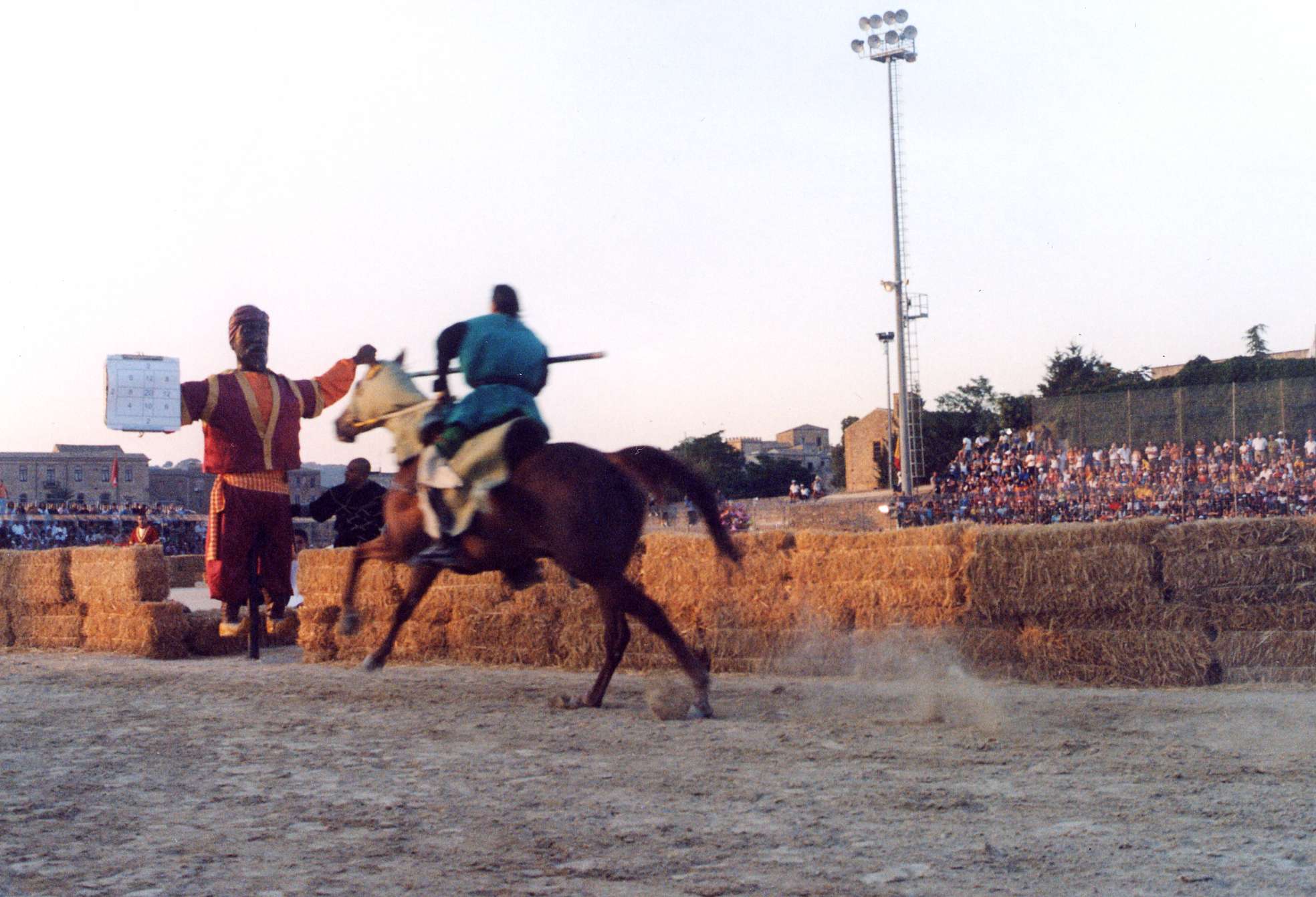 Palio dei Normanni